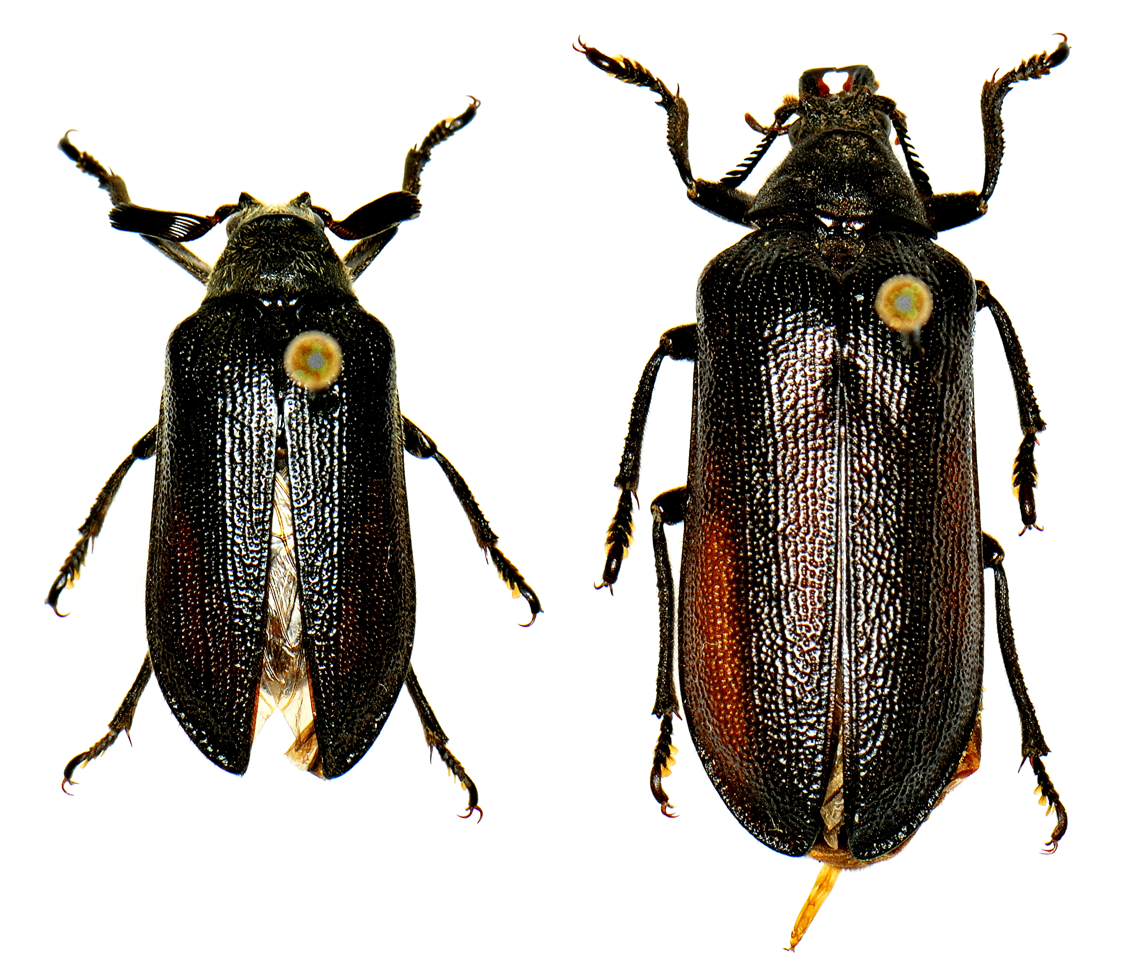 Male (left) and female (right) specimens of Sandalus niger Knoch, a beetle that is an ectoparasitoid of cicada nymphs. This pair were collected in USA: Ohio: Allen County: Cairo, on Salix (willow), 19-Sep-1987, collector unknown (purchased specimens), in collection of M.K. Oliver. In addition to the size difference between the sexes, the antennae are sexually dimorphic, those of the male having the distal segments modified -- possibly for chemodetection of the female's pheromone which males are suspected of using to locate females for mating.